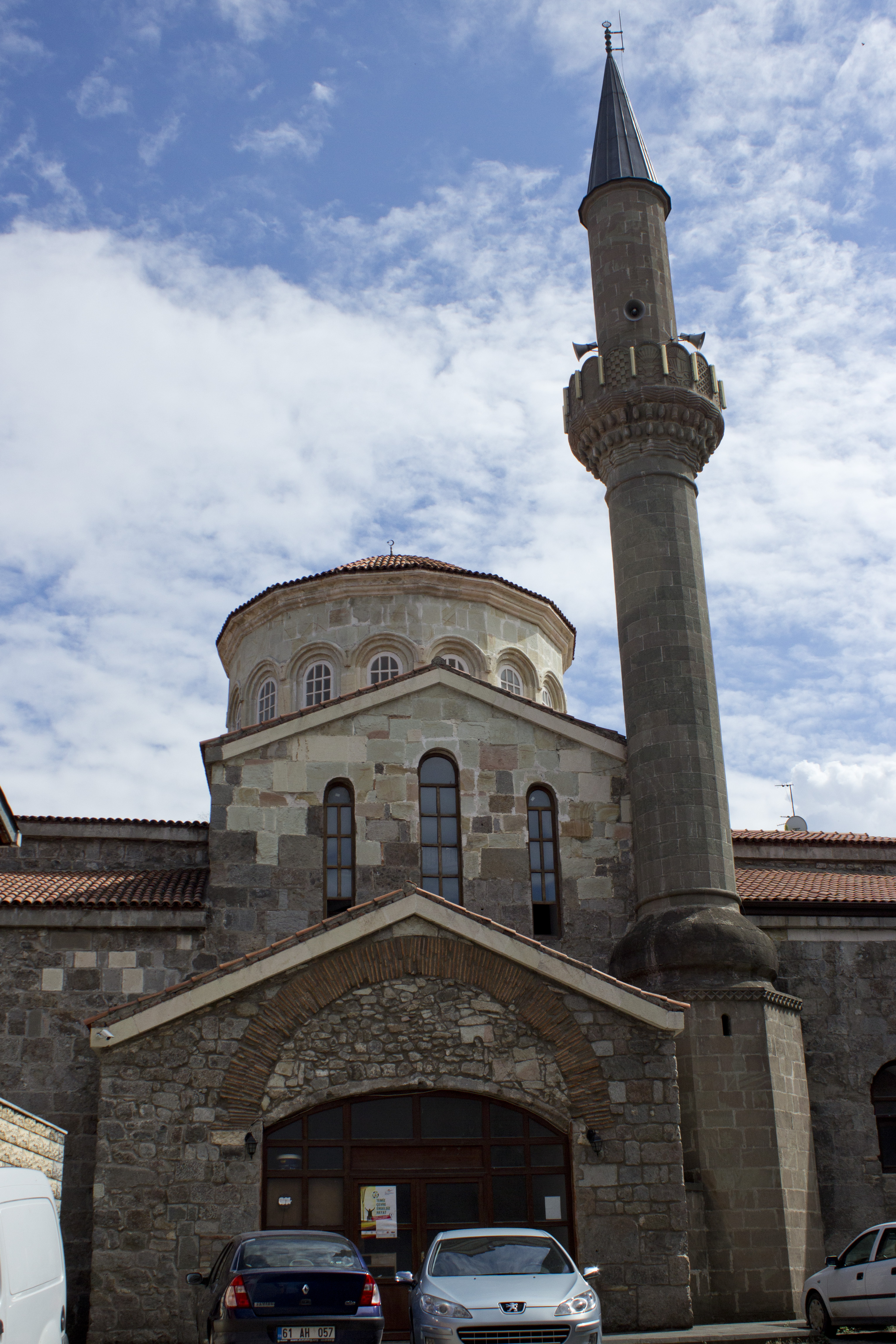 Front view of the Hagios Eugenios / Yeni Cuma Camii in Trabzon, Turkey